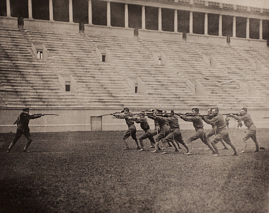 Harvard University Archives image. Inscription reads, “Bayonet Drill, Harvard ROTC at Stadium, 1917-1918.”